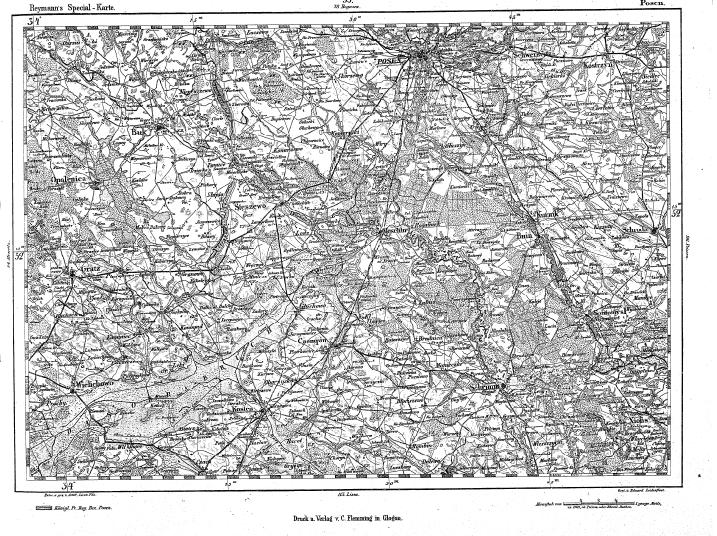 Scan of Poznań (Posen) map - from Reymann's Special Karte series (XIX century).